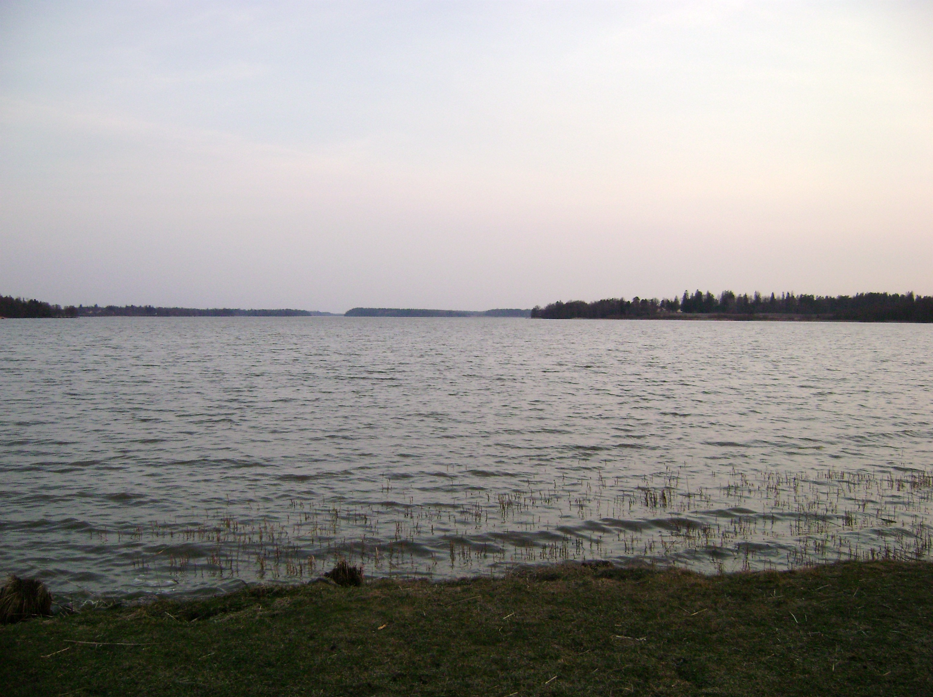 Lake Tuusula, look to south from Tervanokka, Järvenpää.